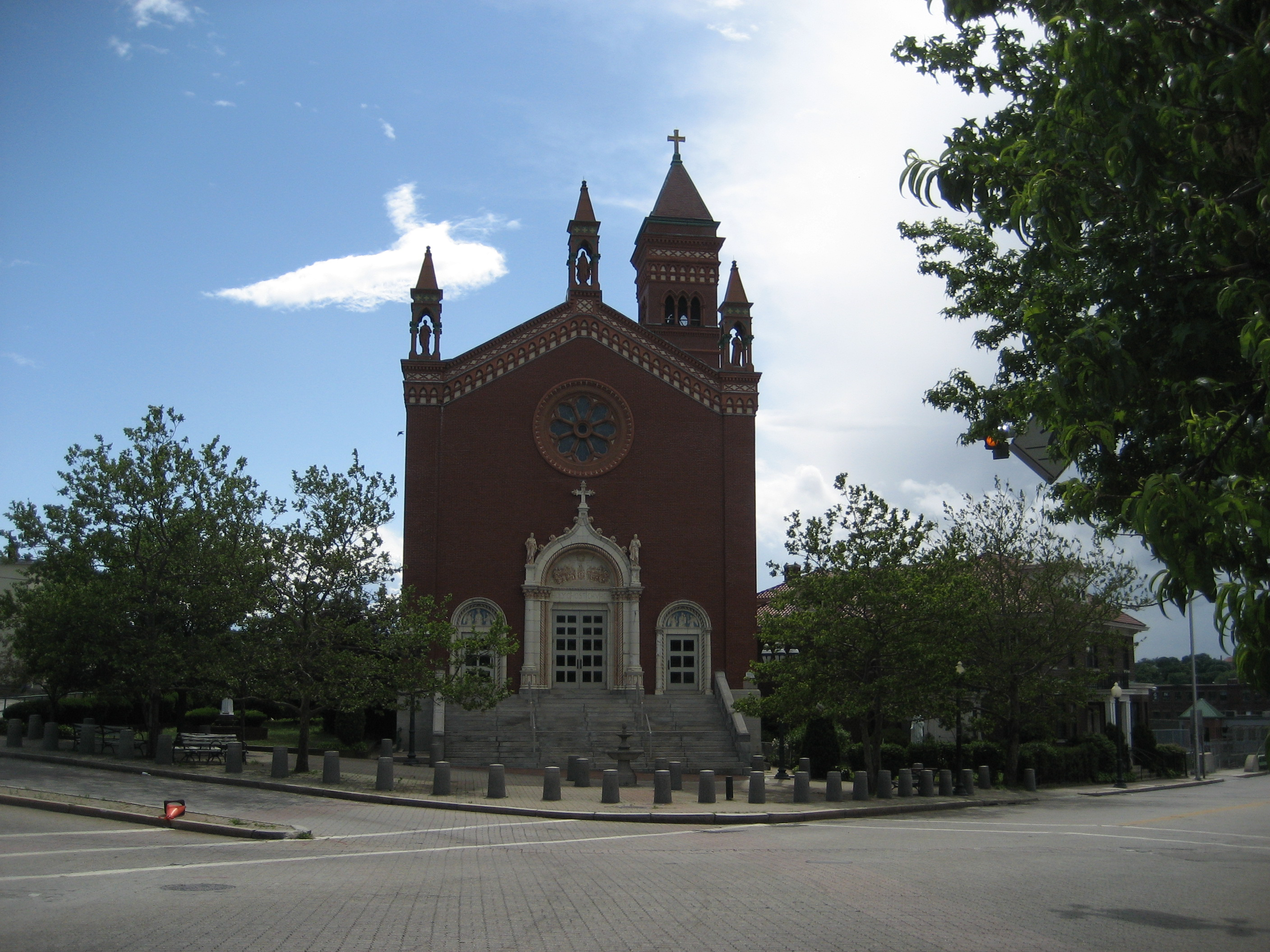 Federal Hill neighborhood, Providence, Rhode Island. Church on Atwells Avenue